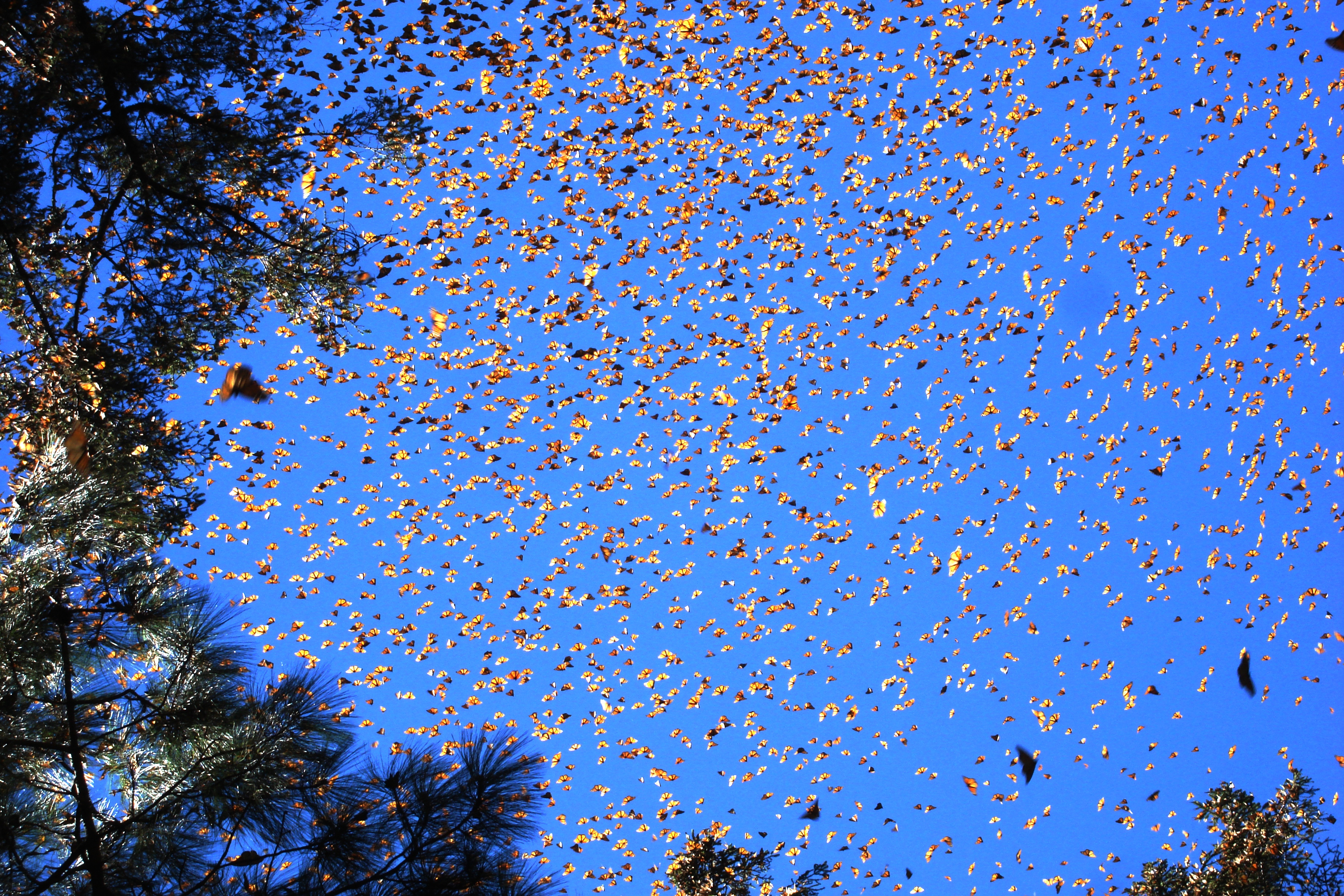 Butterfly Danaus plexippus